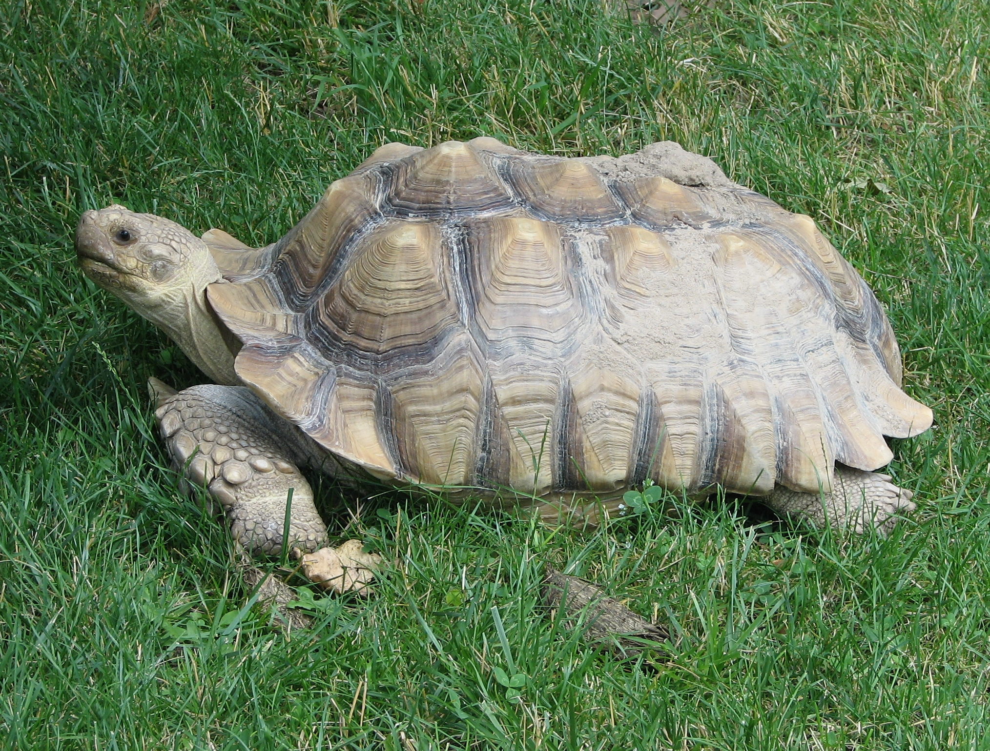 African Spurred Tortoise (Geochelone sulcata)